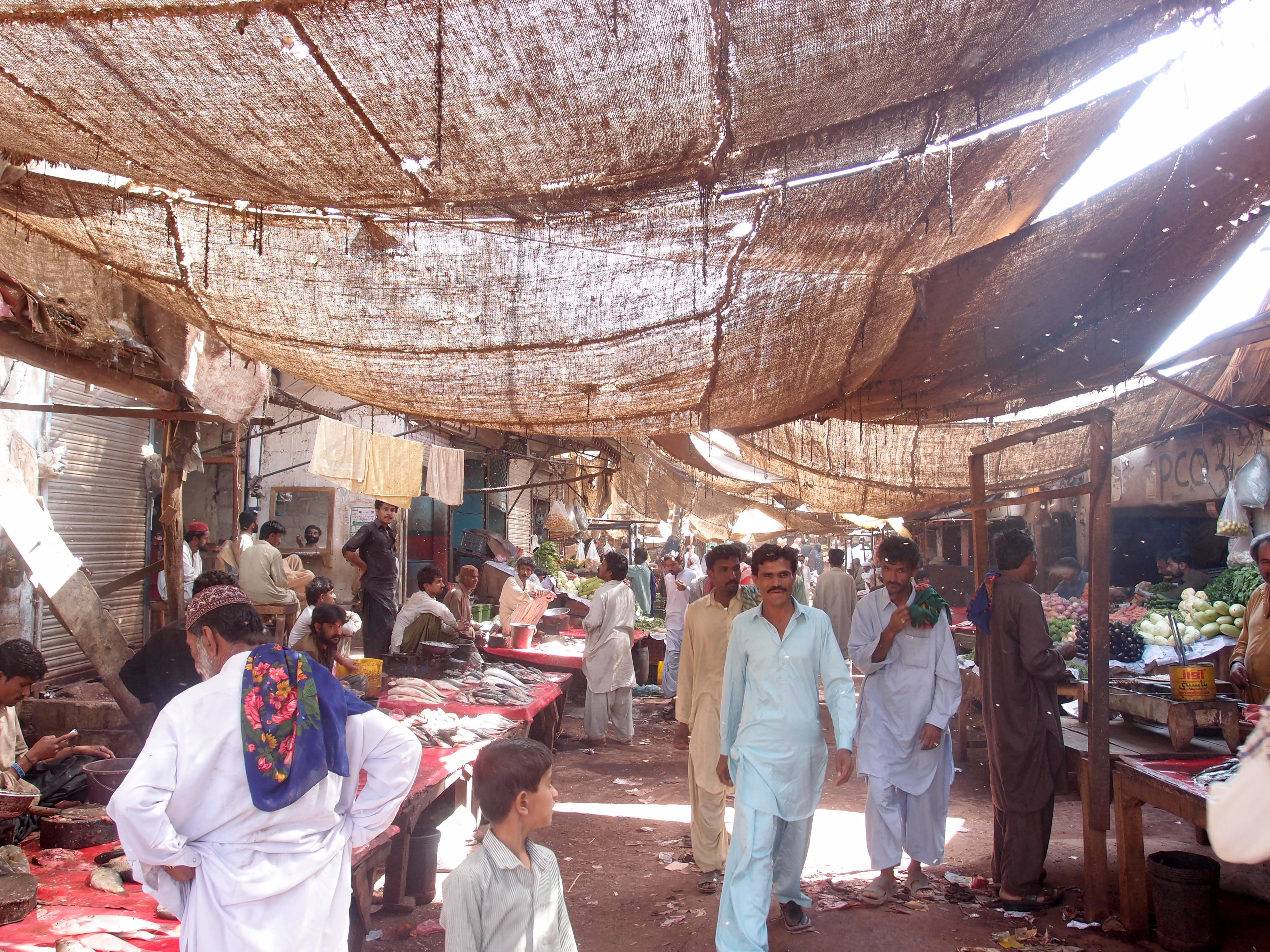 View of Thatta bazaar